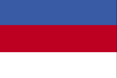 Flag with three horizontal stripes: blue-red-white